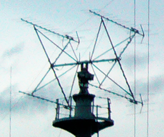 Type 517 radar of PLANS Nanning (DDG-162).